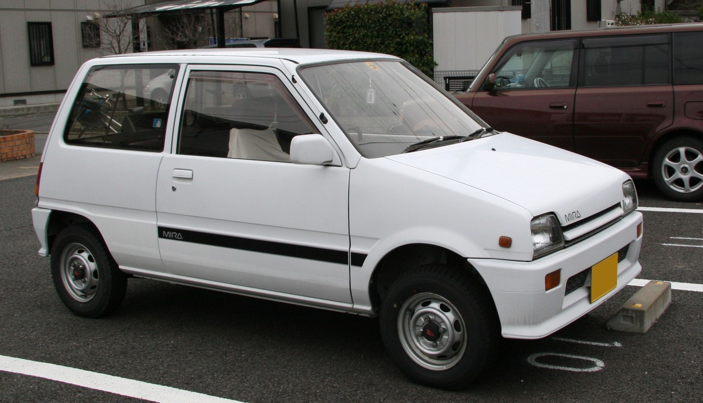 Daihatsu Mira